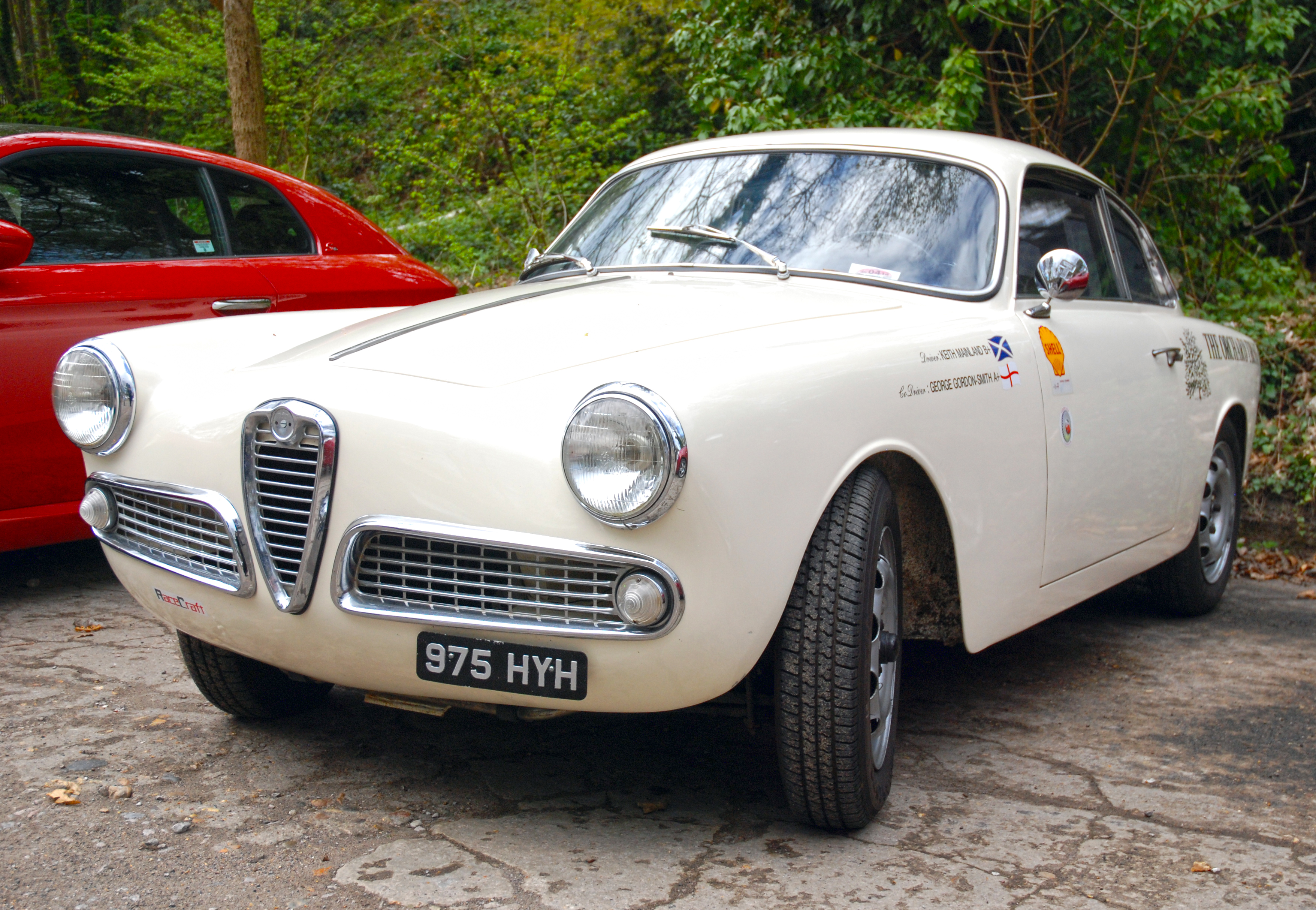 1962 Alfa Romeo Giulia Sprint 1600 at Auto Italia, Brooklands, May 2013